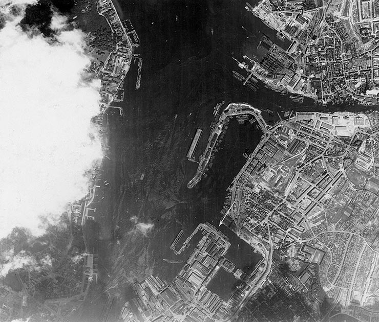 Aerial reconnaissance photograph, probably taken by the British Royal Air Force circa February-June 1942. The arrow in the lower center marks the position of the battleship Scharnhorst, which was then under repair at the Kiel navy yard for damage received during the February 1942 "Channel Dash".